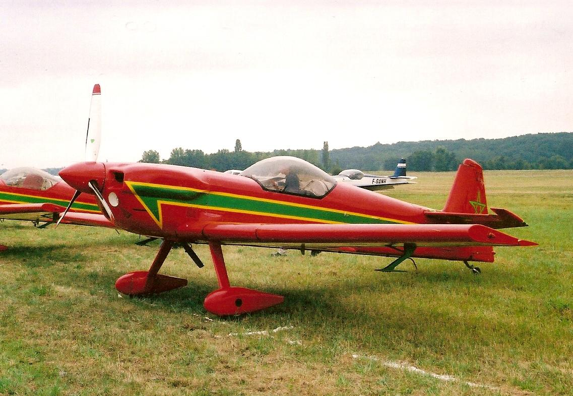 CAP 230 of the Marche Verte aerobatic team on Dierre aerial meeting.